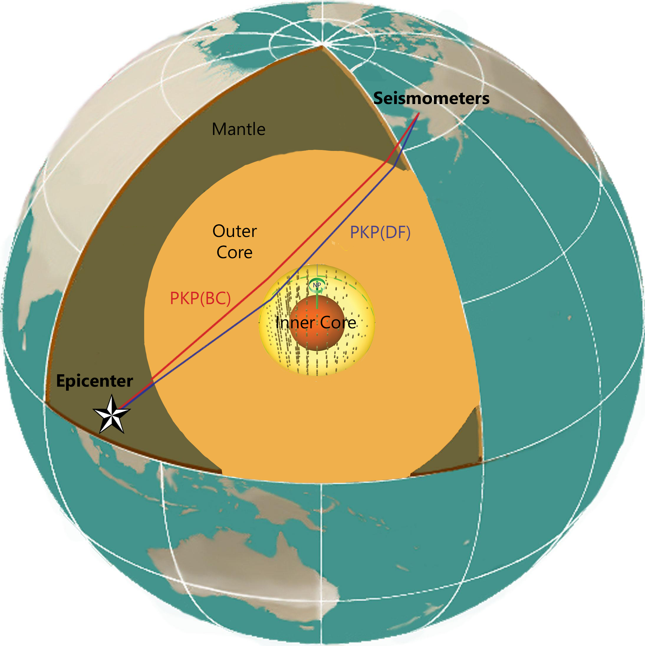 A random epicenter is chosen with the recording of the waves in approximately Alaska. The PKP(BC) does not travel through the inner core, while the PKP(DF) does.